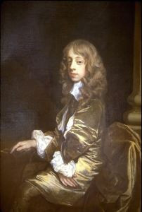 Josceline Percy, 11th Earl of Northumberland (1644-1670) was an English peer. Percy was the eldest son of Algernon Percy, 10th Earl of Northumberland and his second wife, Elizabeth Howard, daughter of Theophilus Howard, 2nd Earl of Suffolk. On 23 December 1662, he married Lady Elizabeth Wriothesley (the fourth daughter and coheiress of Thomas Wriothesley, 4th Earl of Southampton) and they had two children: * Henry Percy, Lord Percy (1668–1669) * Lady Elizabeth (1667–1722) In 1668, he inherited his father's titles and estate. On his own death in 1670, lacking male heirs, his titles became extinct and his estate passed to his only daughter, Elizabeth.